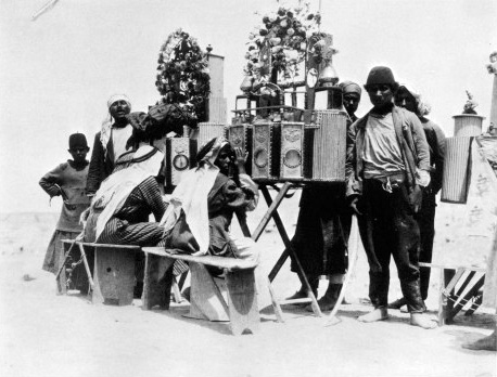 Photograph of of a peep-show in Palestine.